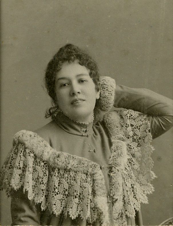 The portrait of Ekaterina Matveevna Hkalina - the wife of Karl Hieronymus Dietrich Krause